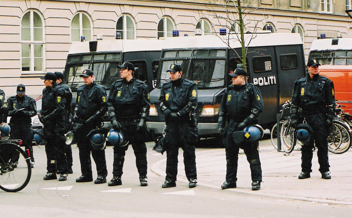 Hollændervogn is a riot control vehicle of the Danish police. Literally Dutchman's vehicle, because it's a Mercedes-Benz Vario reinforced in the Netherlands to sustain missiles from rioters. Picture taken March 5th 2007 in the vicinity of the "Ungdomshuset" on "Nørrebro", Copenhagen, Denmark, after the demolition of the "Ungdomshuset" had commenced.